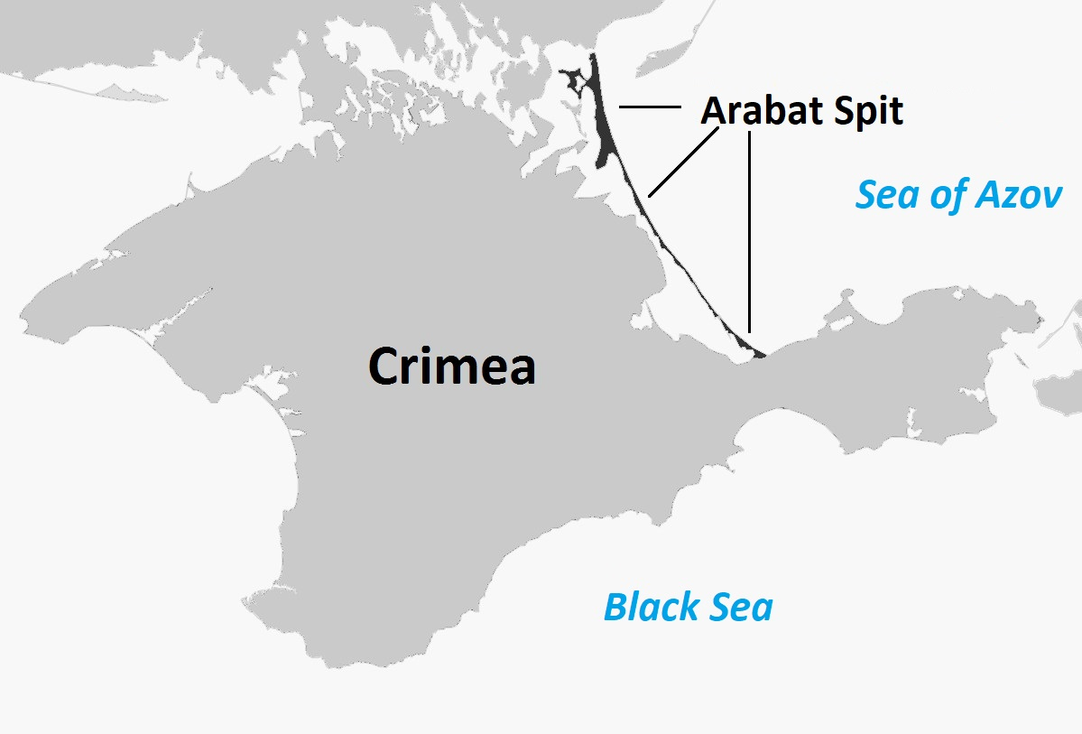 Map of the entire Crimea highlighting the Arabat Arrow (or Arabat Spit), the body of land separating the Syvash from the Sea of Azov